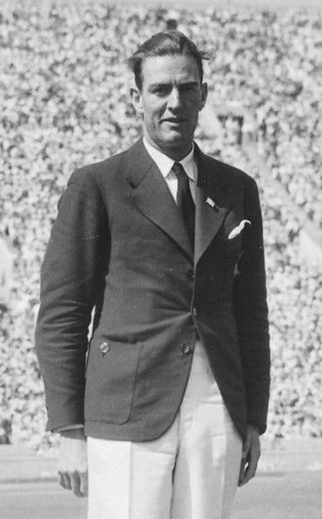 1932 OLYMPIC PENTATHLON WINNERS Vintage Medal Stand Photo